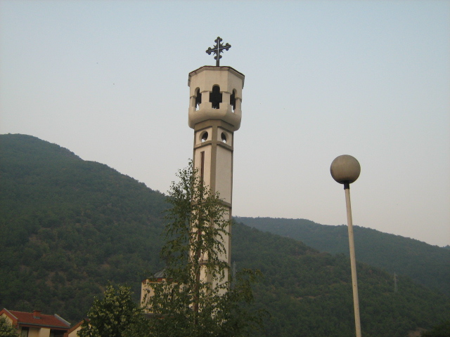 Church in the village of Samokov, Republic of Macedonia